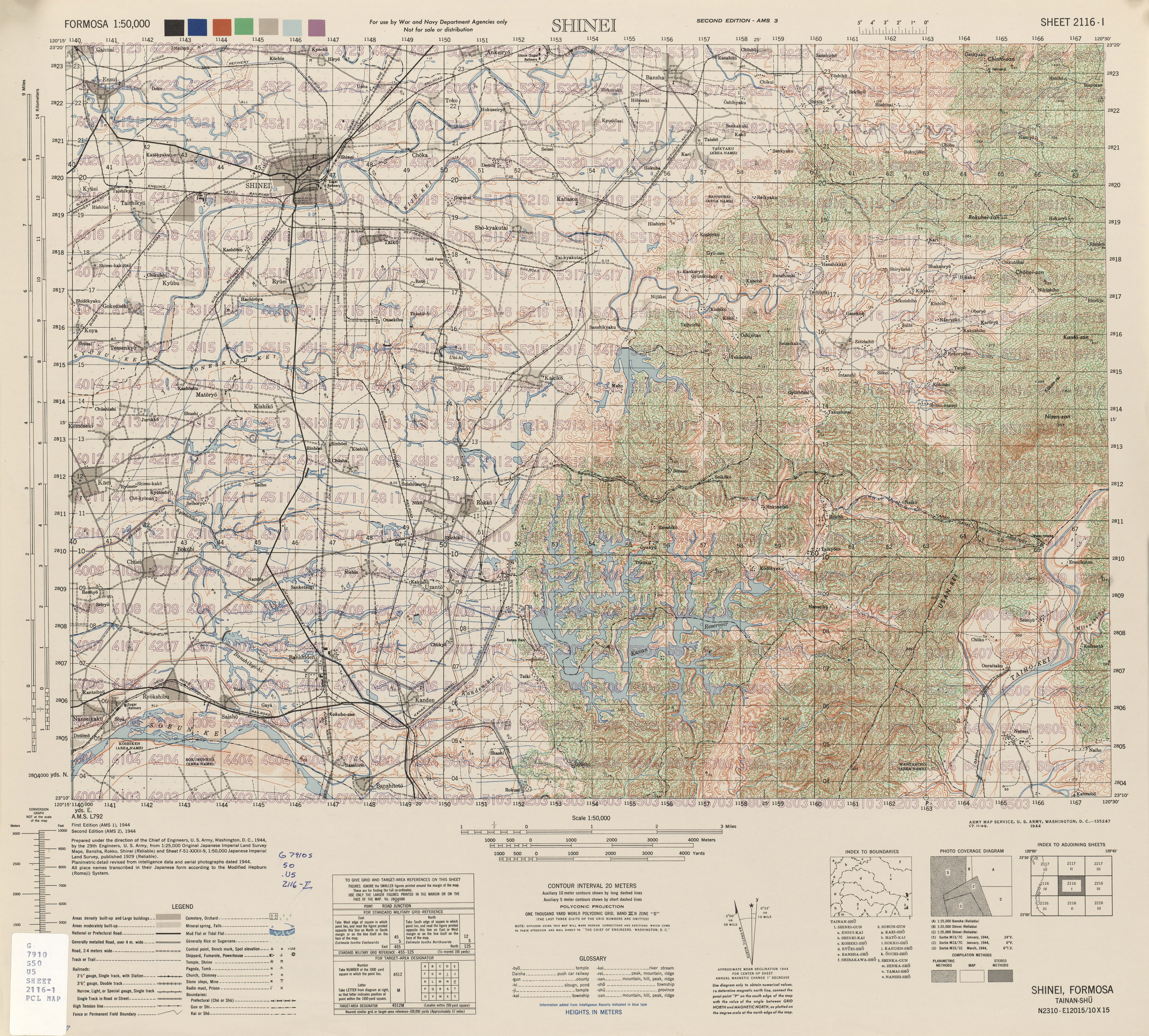 Map from Formosa (Taiwan) 1:50,000 AMS Series L792